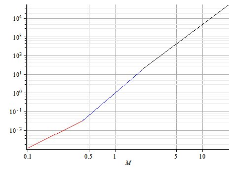 Plot of the mass-luminosity relation of main sequence stars up tot 20 solar masses